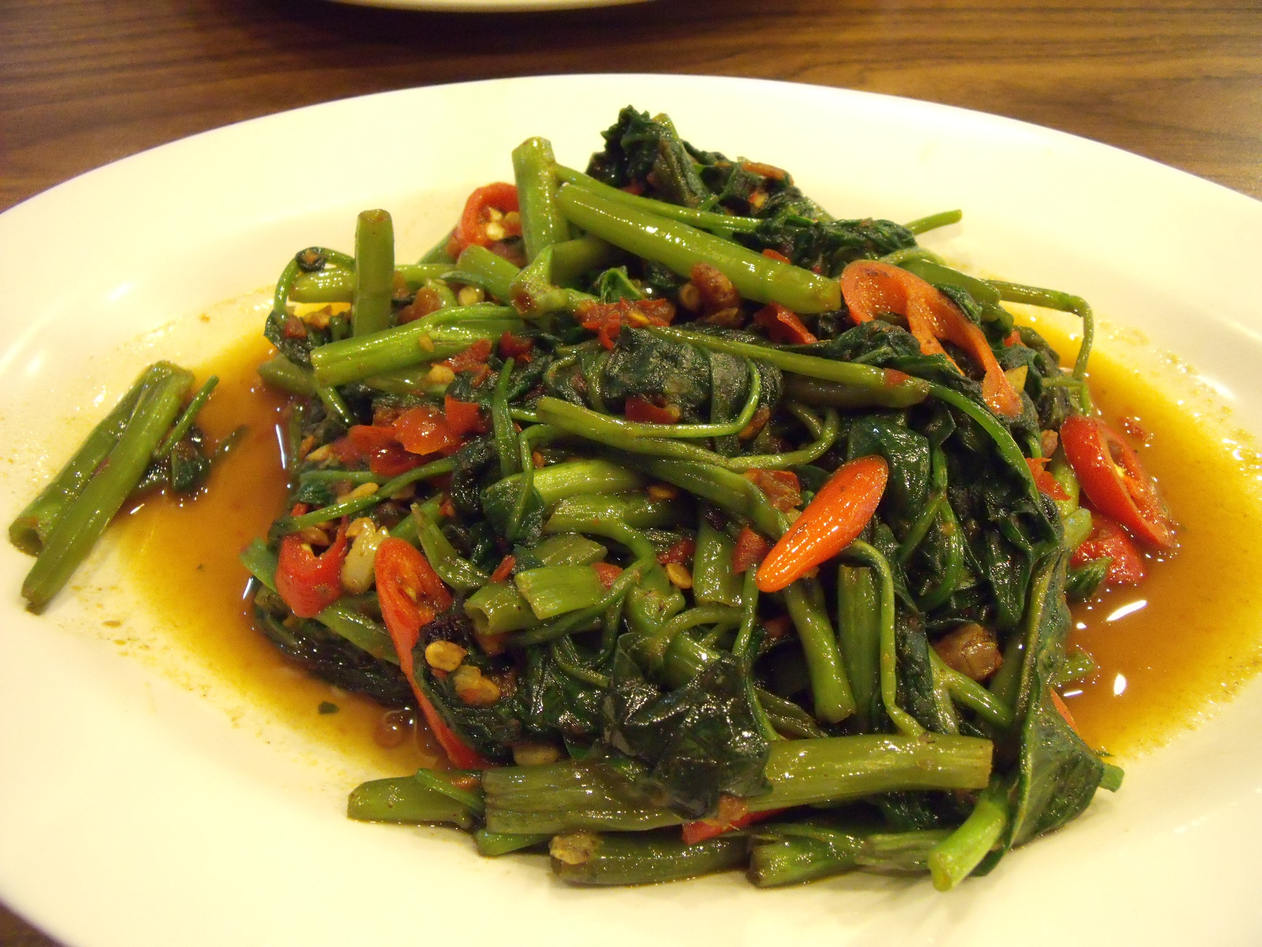 Asian styled stir fry ipomoea aquatica served in chili and sambal.